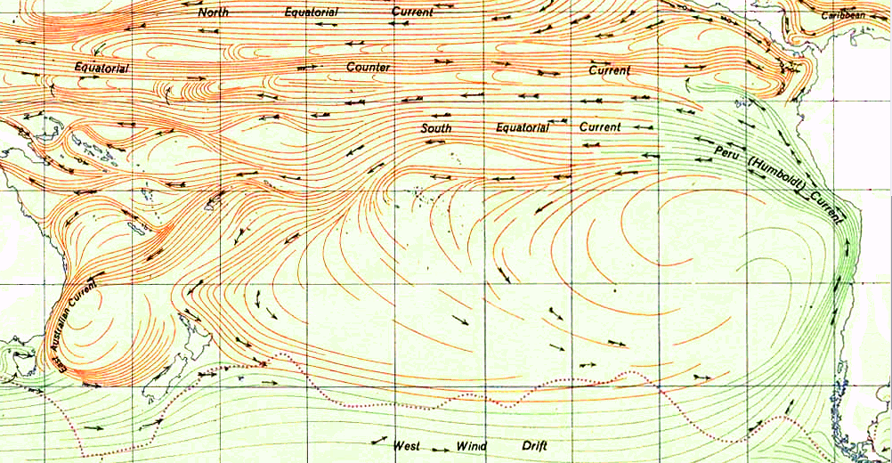 The South Pacific Gyre, a clockwise-swirling vortex of ocean currents in the South Pacific Ocean